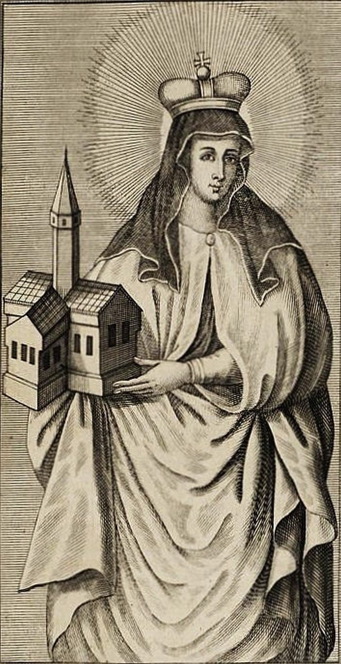 Anne of Bohemia (ca. 1201-1265), a member of the Přemyslid dynasty, Duchess of Silesia, wife of Henry II the Pious